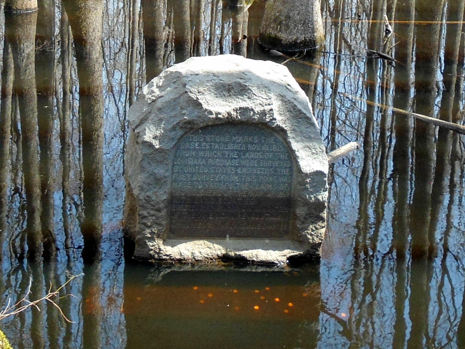 monument marking beginning point of the survey of the Louisiana Purchase